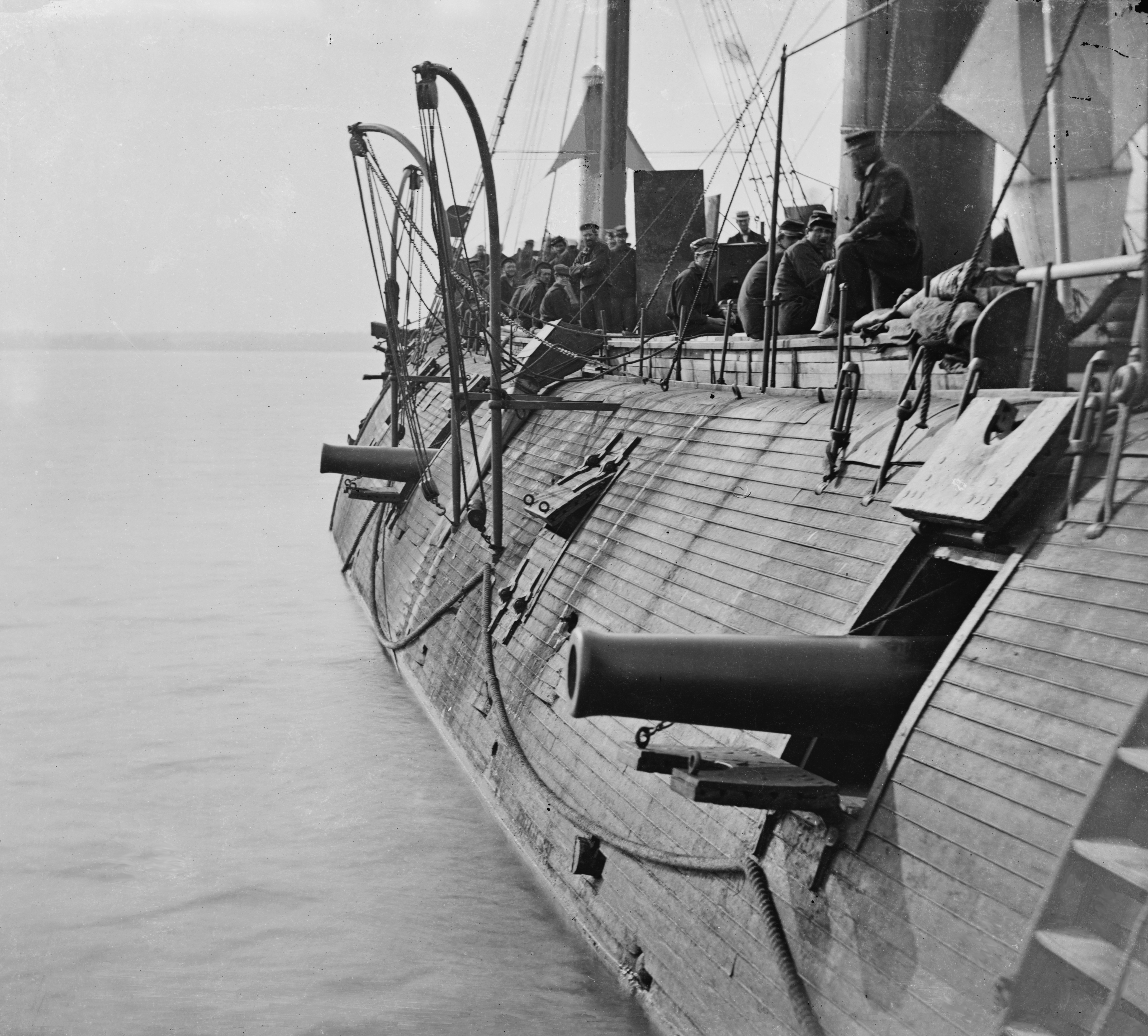 USS Galena- 1862 early ironclad experimental ship, whose light armor was judged insufficient. Photograph looking forward along the ship's port side, shortly after her 15 May 1862 action with Confederate batteries at Drewry's Bluff, on the James River, Virginia. Among the items visible are the muzzles of two of Galena's IX-inch Dahlgren smoothbore guns; her unique horizontally-laid interlocking iron side armor; armored gunport shutters; boat davits; members of her crew. Visible is a plugged hole from enemy shot (near the waterline in bottom left center), and a cannon ball embedded further to the right, also at waterline. This is a retouched picture, which means that it has been digitally altered from its original version. Modifications: Dust removal, reconstruction of a portion of the ladder (negative had flaked), cropped, sharpenned only a few crew members faces. Modifications made by Makthorpe. The original can be found here.